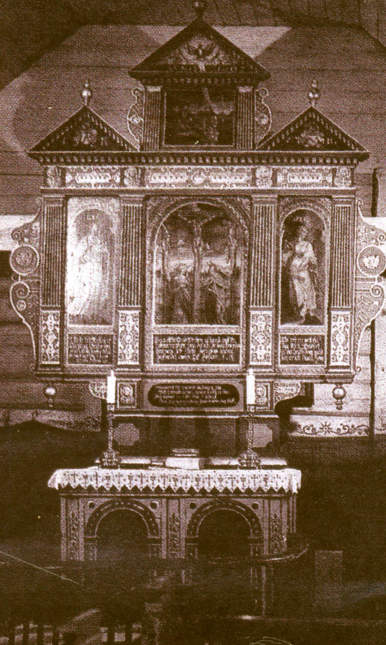 The altar of the city Church. Written in 1607 by Peter Reimers, one of the most famous Baroque artists in Norway..